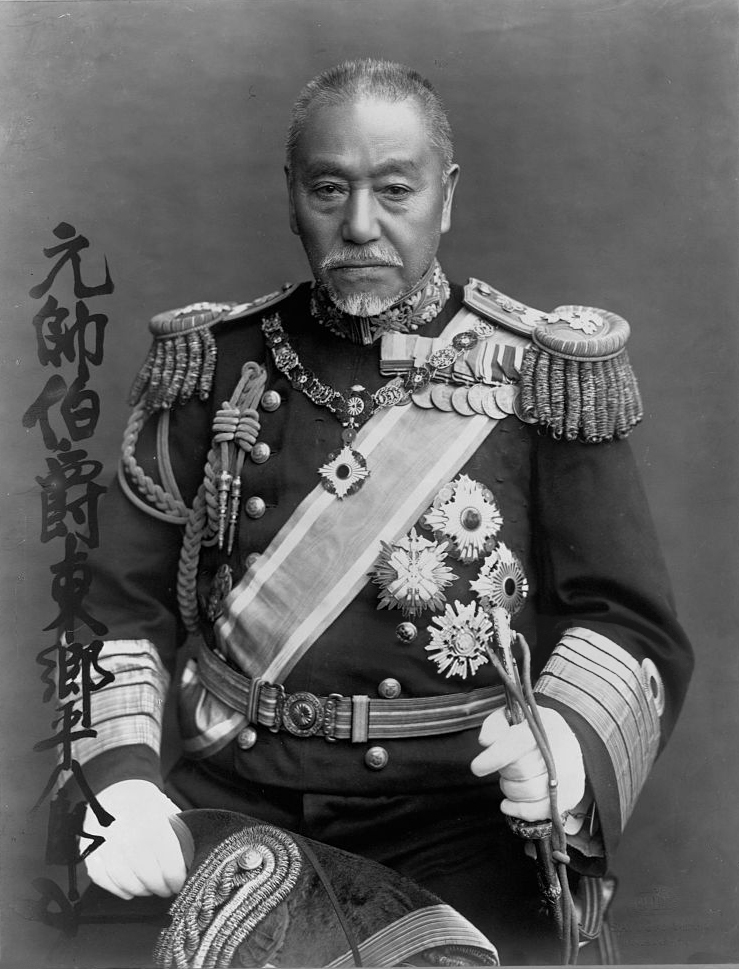 Photo of Marshal-Admiral, the Marquis Tōgō Heihachirō (1848–1934) of the Imperial Japanese Navy with the Collar and the Grand Cordon of the Order of the Chrysanthemum.